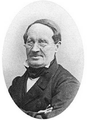 Portrait of Karl Ernst Claus(1796-1864), Russian chemist and botanist